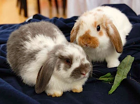 C. Flynn, own work for Holland Lop